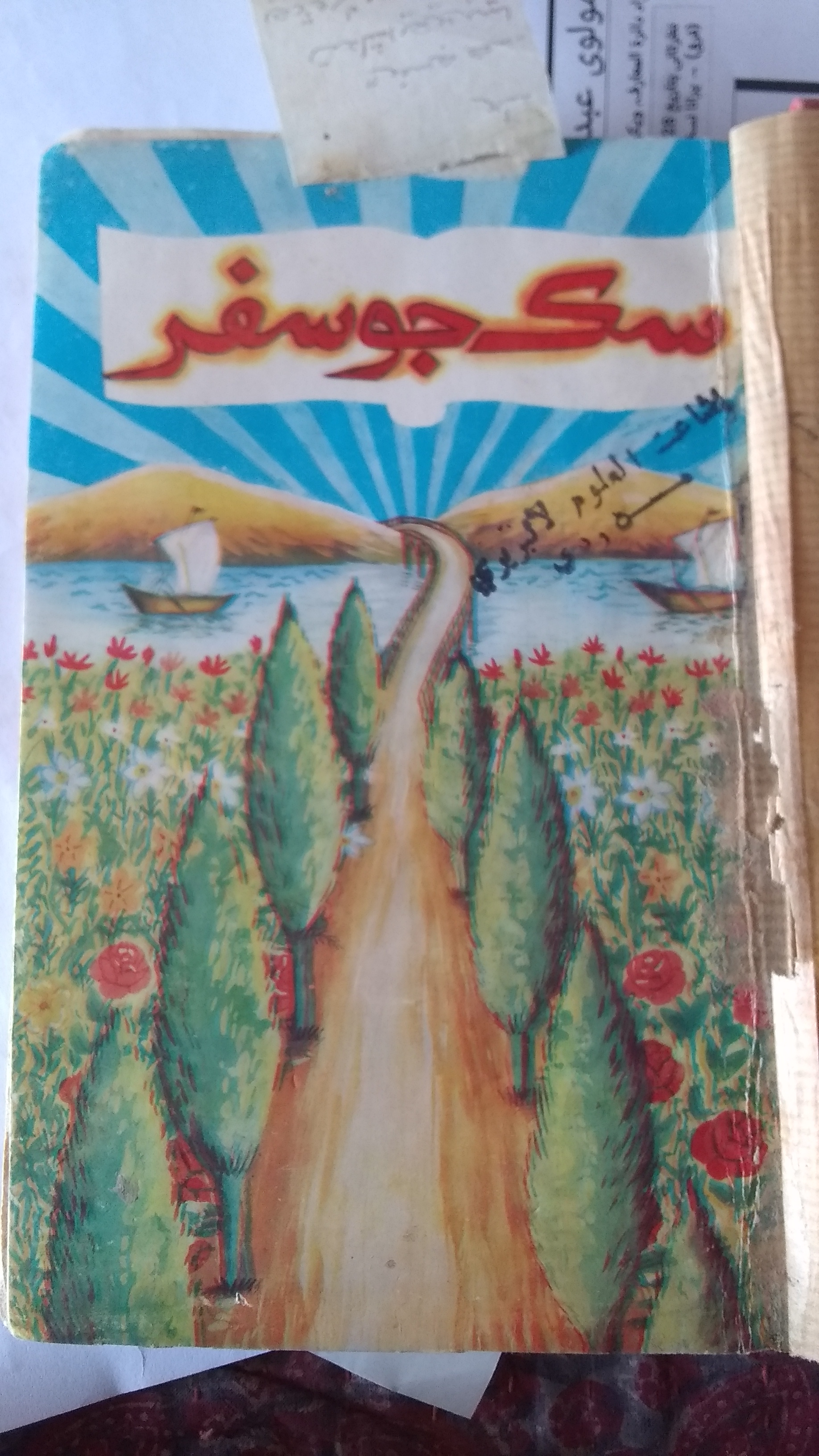 سک جو سفر مولوی عبد الکریم